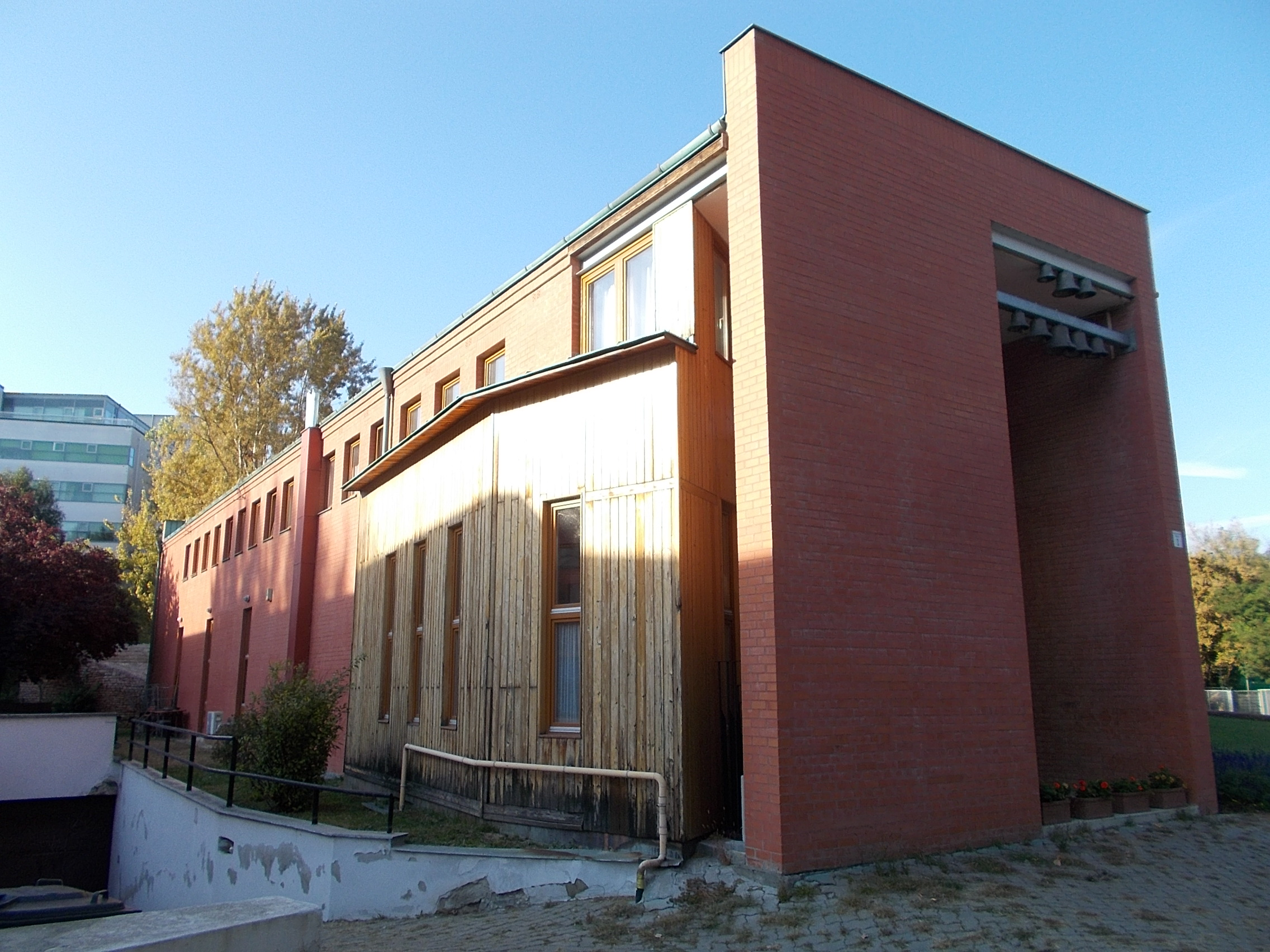 Hungarian Saints Church. - 1 Magyar tudósok körútja, Lágymányos neighborhood, Budapest District XI. Hungary.